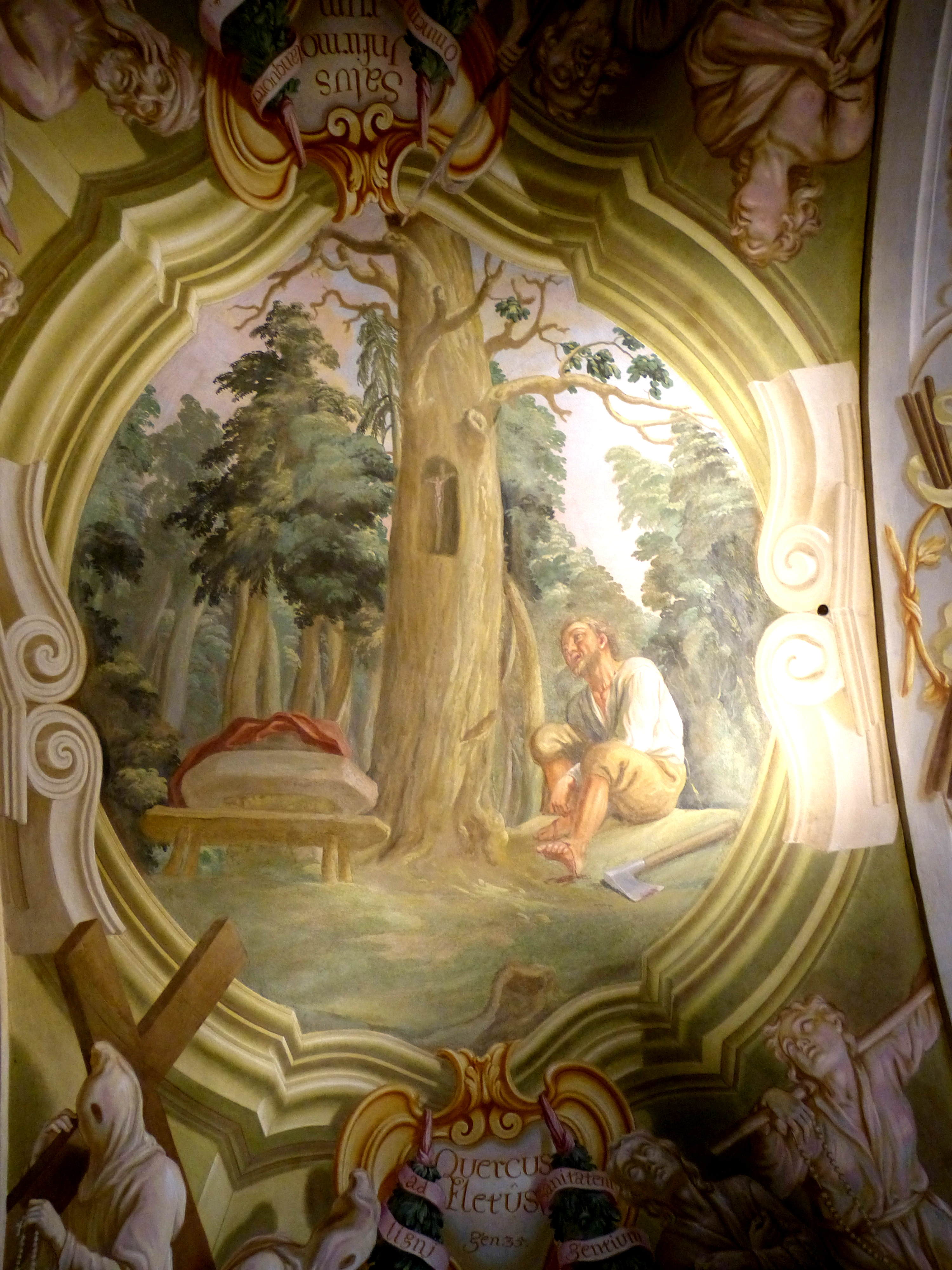 Maria Taferl ( Lower Austria ). Pilgrimage church: Fresco ( 1713-18 ) by Antonio Beduzzi - The shepherd Thomas Pachmann hurts himself while trying to cut down the holy oak ( 1633 ).